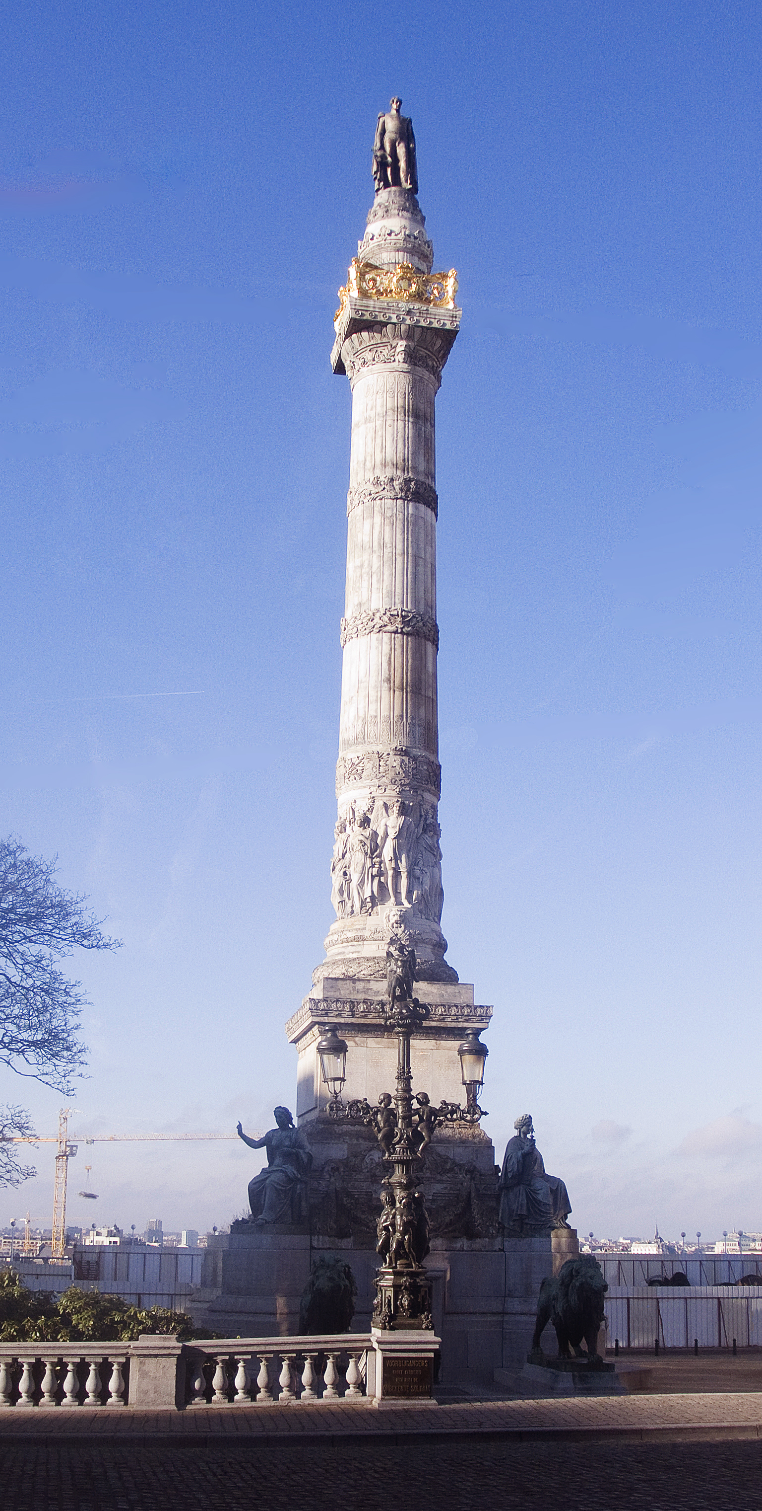 The Congress Column in Brussels